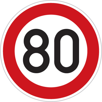 Road sign of the Czech Republic